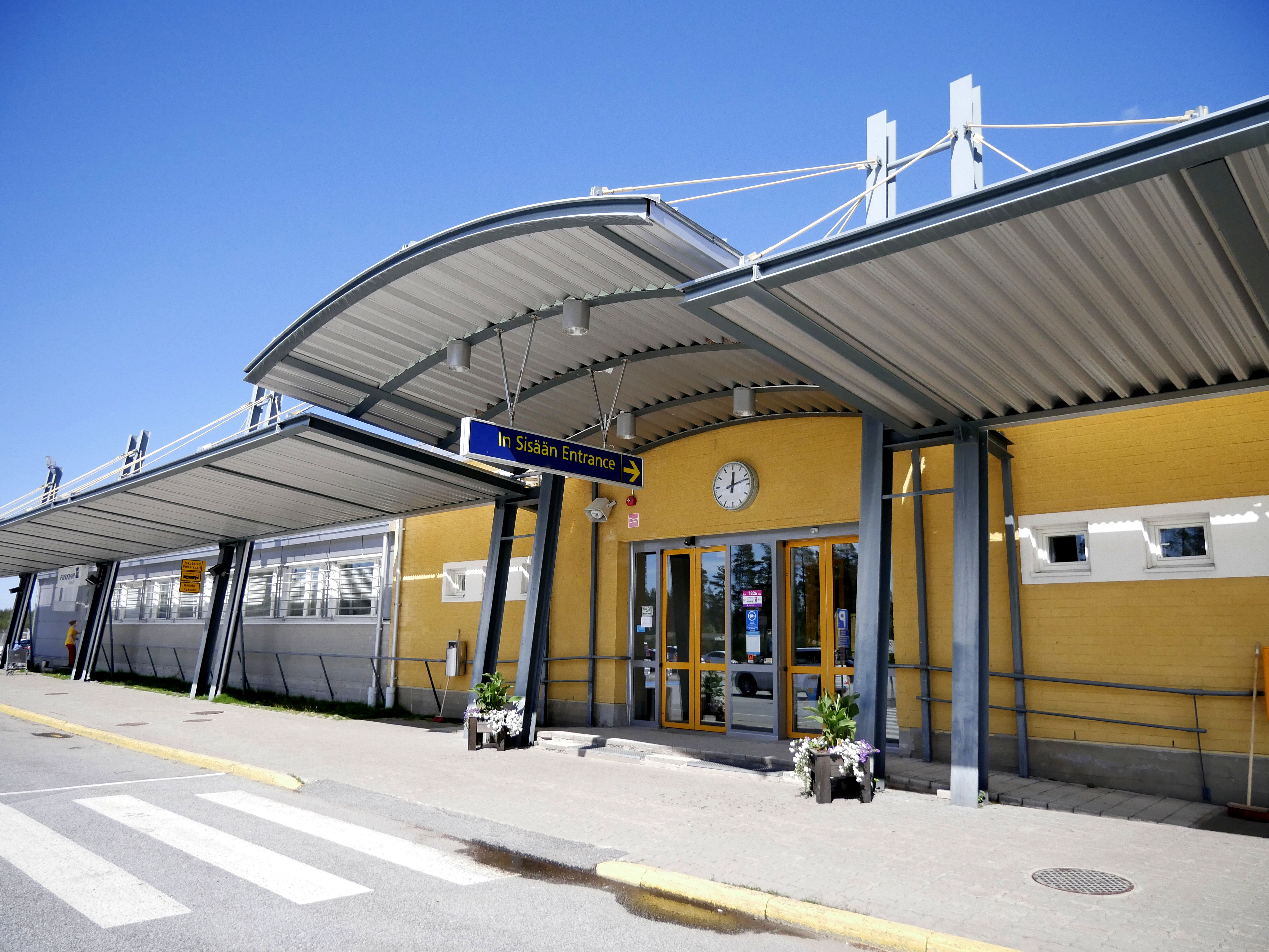 Kokkola-Pietarsaari Airport Terminal in Kronoby, Finland.